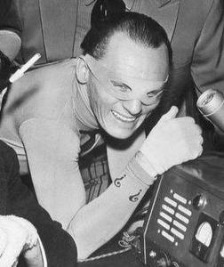 Publicity photo of Frank Gorshin Riddler 1967.